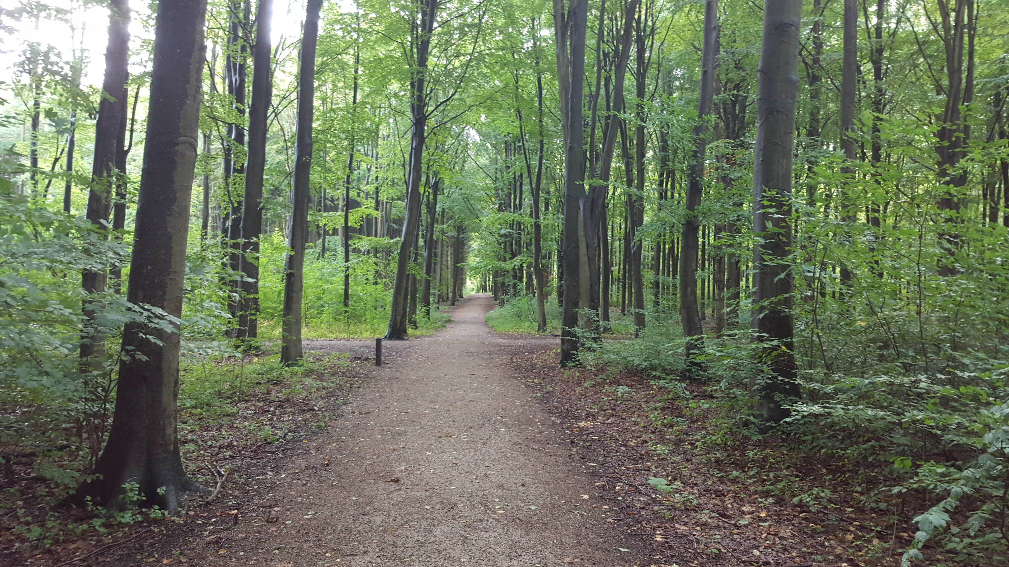 Brøndbyskoven, beech forest palnted in the 1950'es, Brøndbyøster, Copenhagen, Denmark